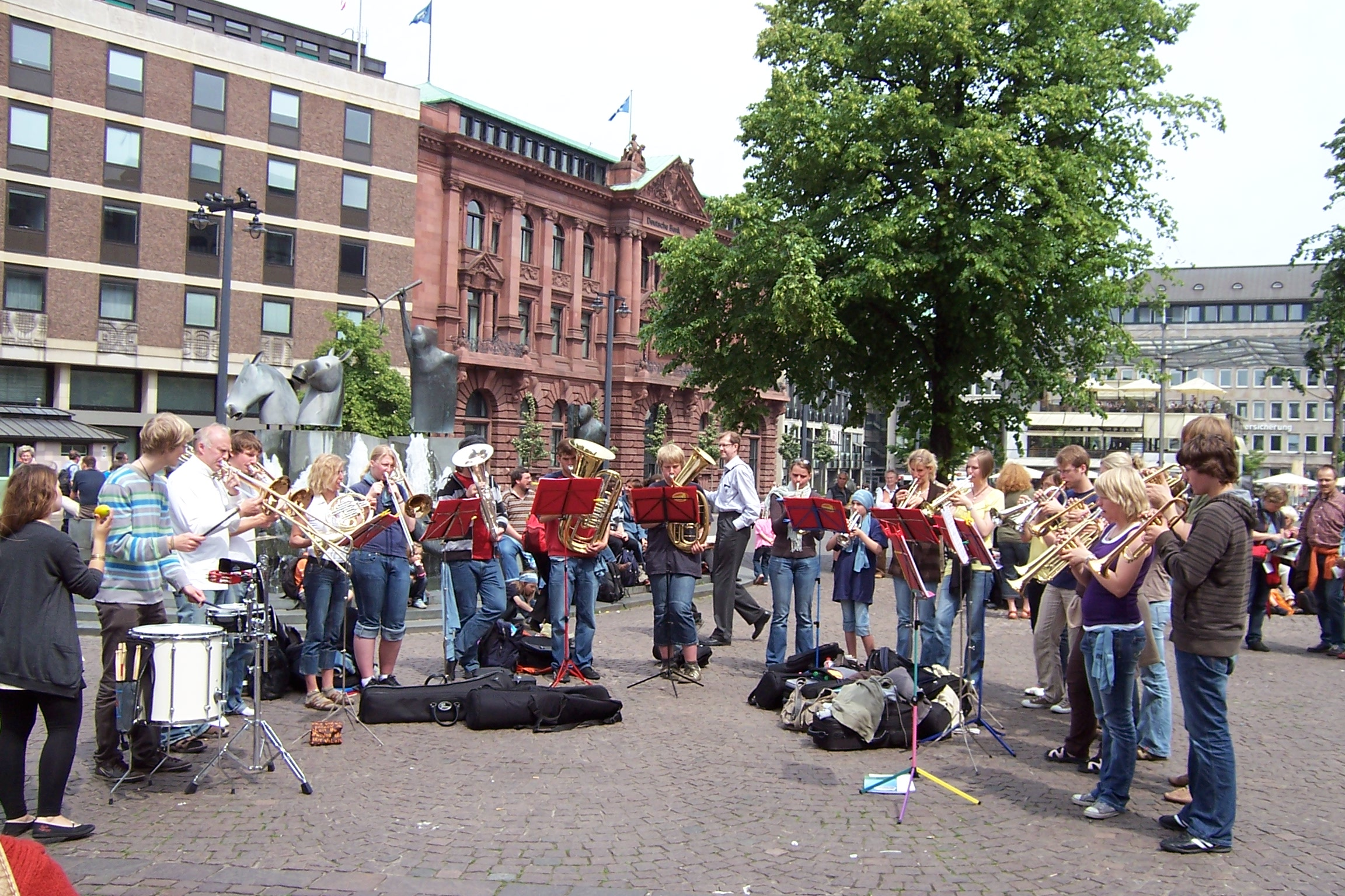 Brass Band (from Neumünster?) on the Marktplatz in Bremen during the 32. Deutscher Evangelischer Kirchentag